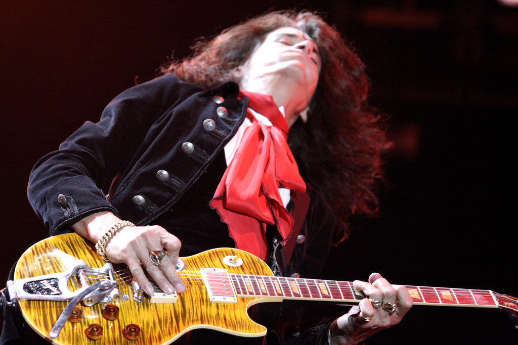 Aerosmith - Joe Perry